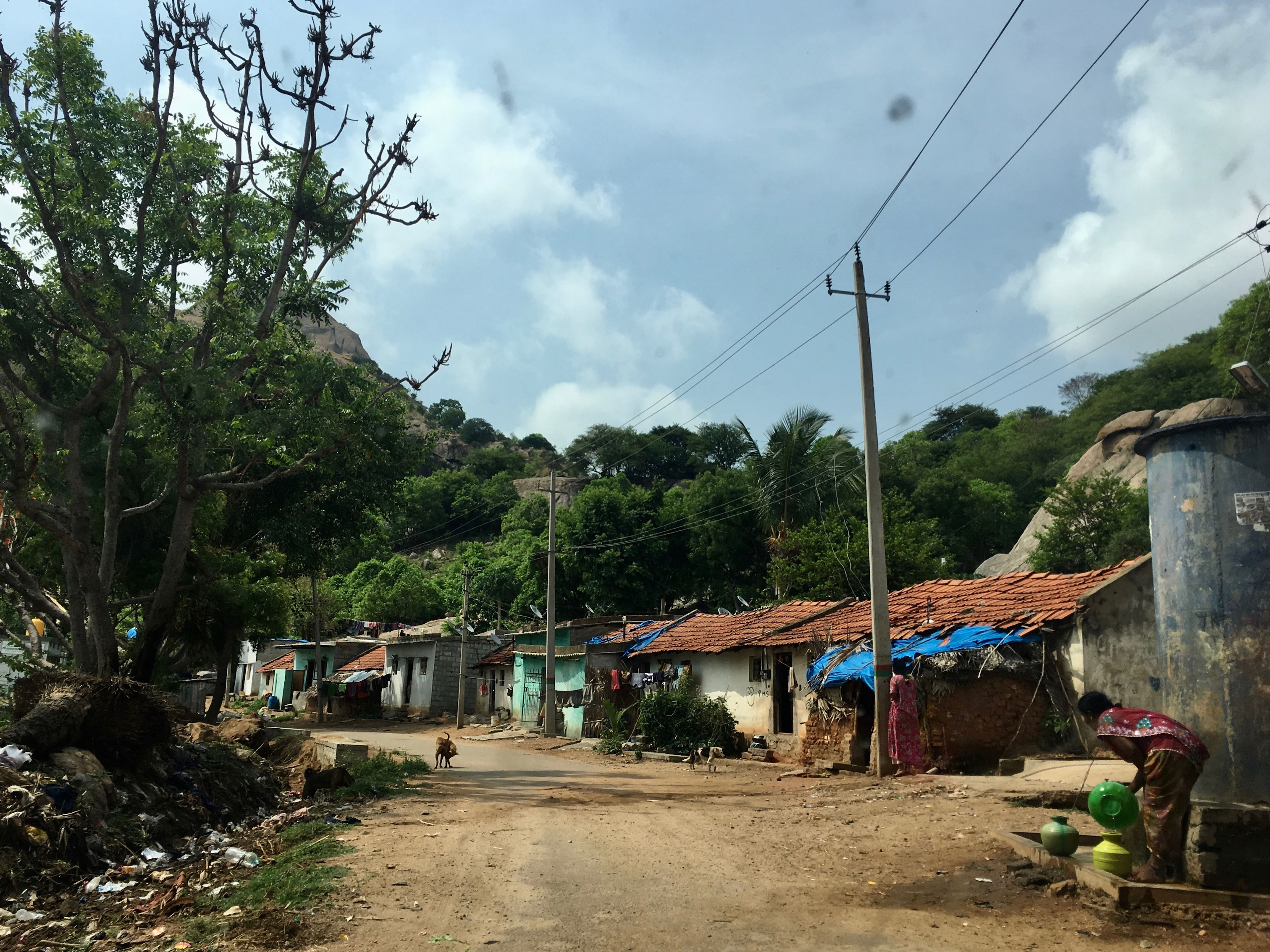 Ramanagar, Karnataka